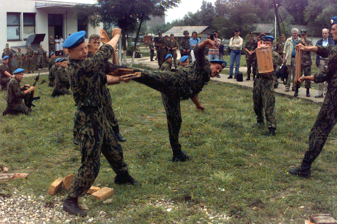 A Soldier from the Implementation Forces (IFOR), Russian Brigade in Ugljevik, Bosnia-Herzegovina, give a demonstration of karate skills for on lookers and members of the press.